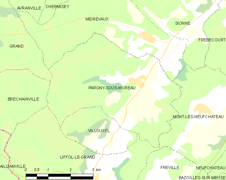 Map of French municipality Pargny-sous-Mureau